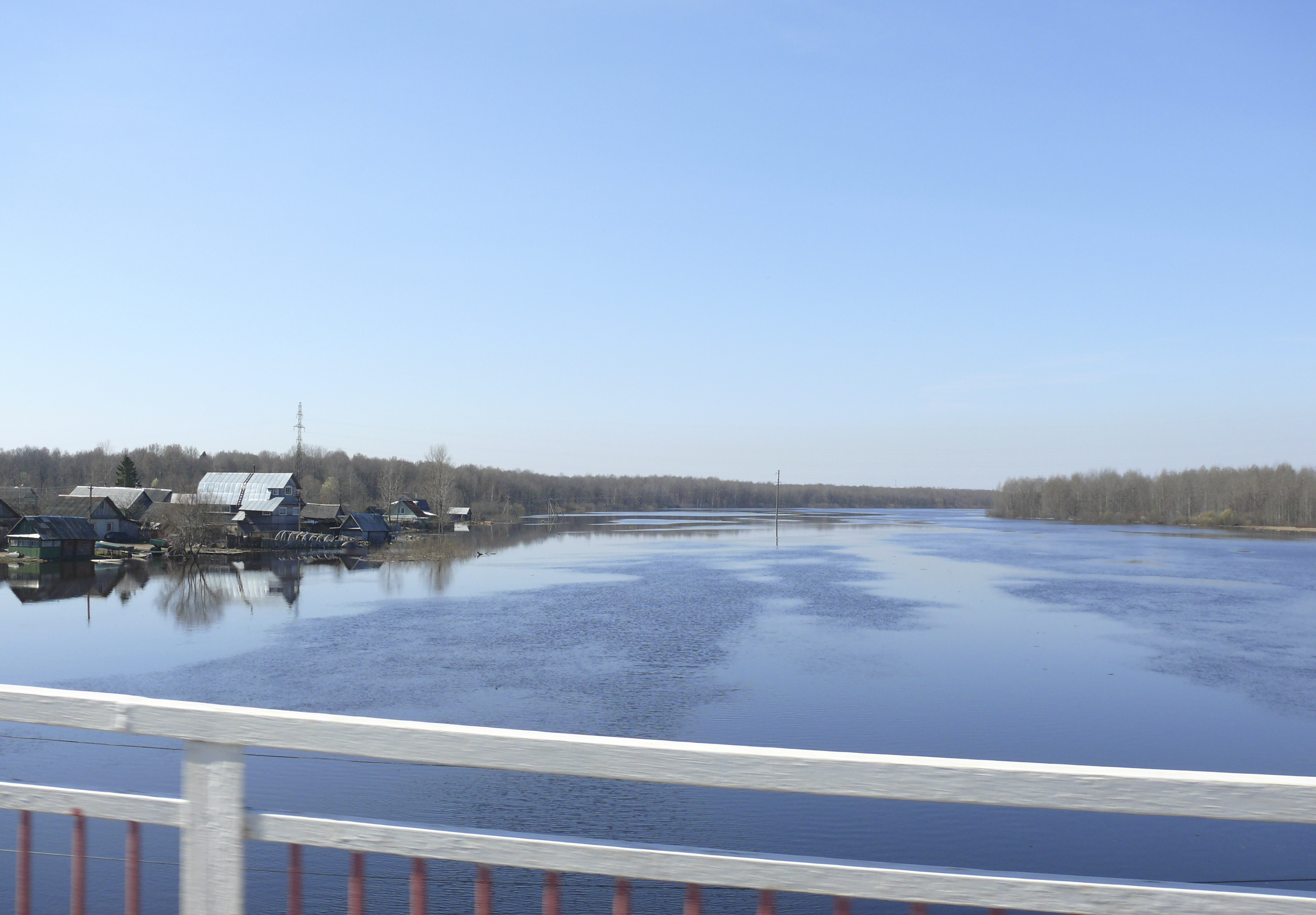 Vishera river. View from the bridge in Savino village, Novgorodsky district, Novgorod oblast, Russia